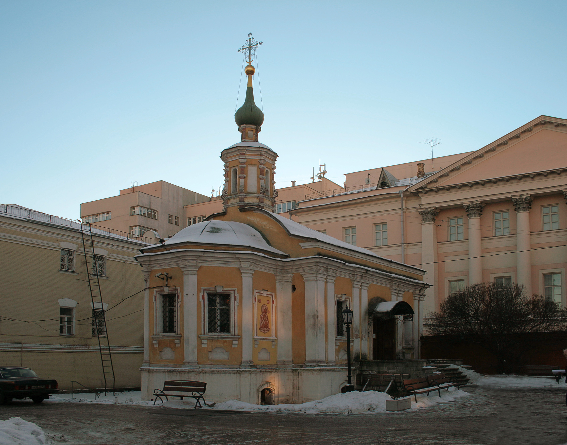 Vysokopetrovsky Monastery, Church of Our Lady of Tolga, 1744